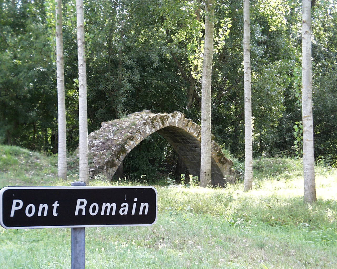 Roman Bridge of Isle Auger (Chambourg/Indre, France)